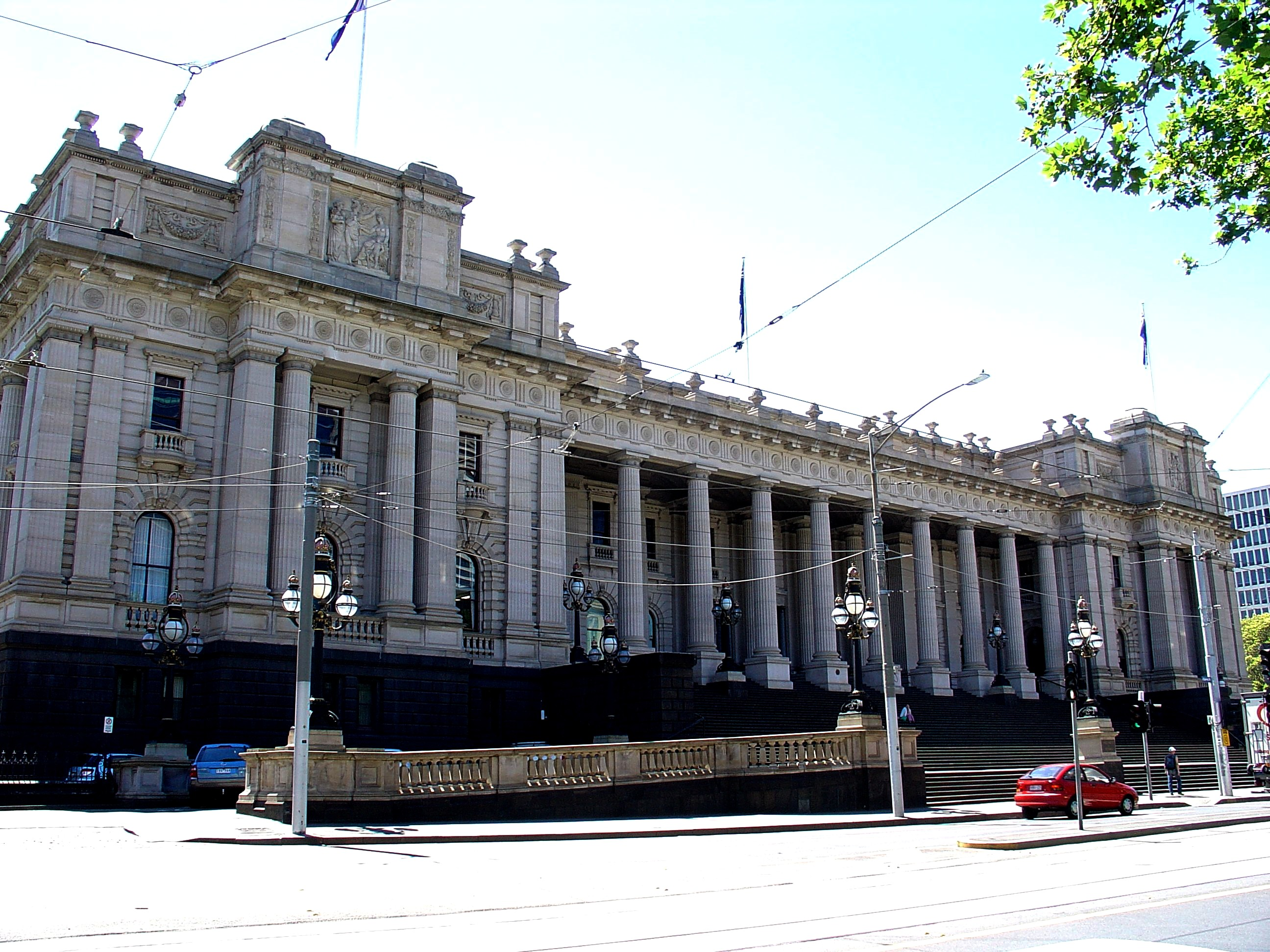 Facade of the Victorian Parliament building in Melbourne